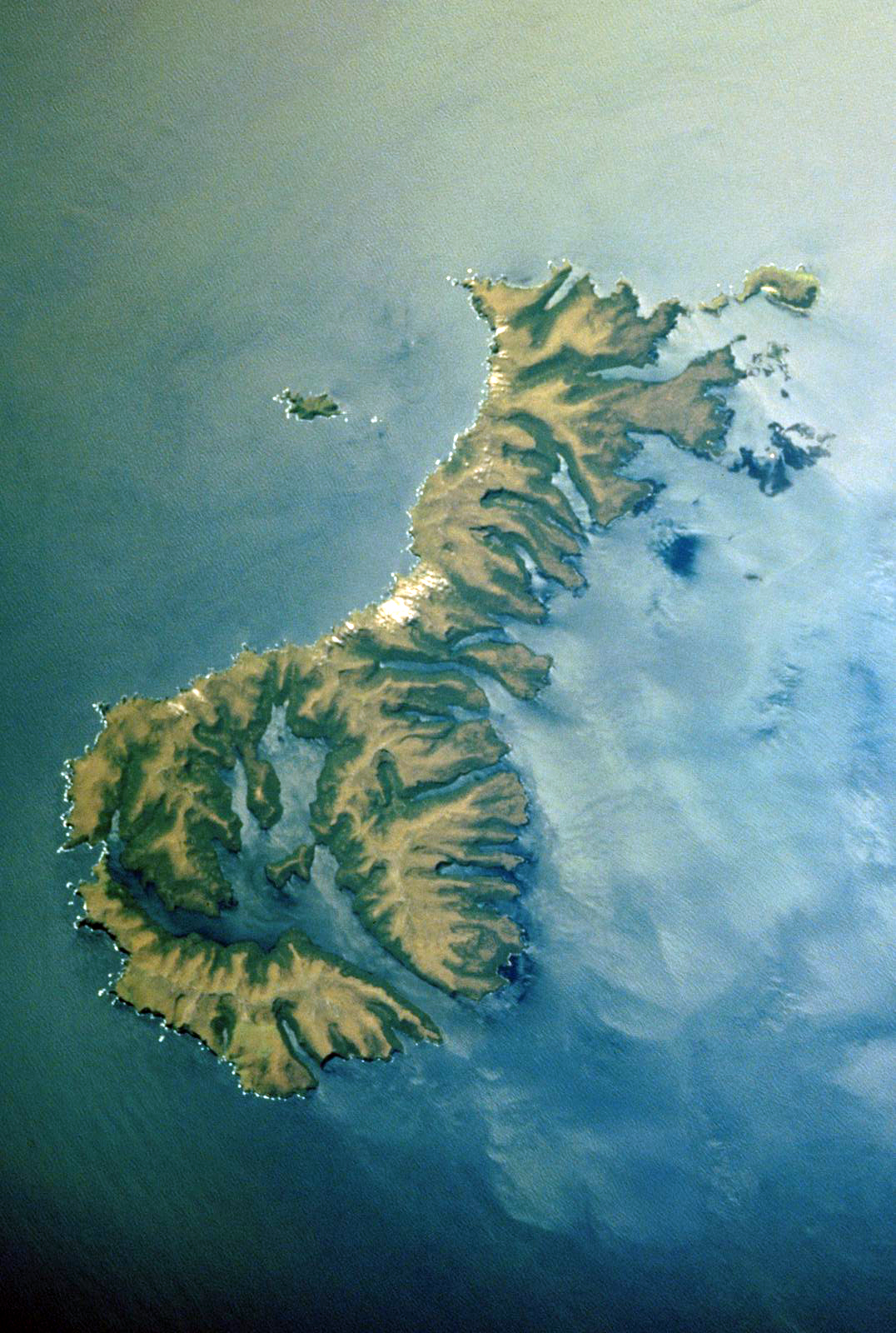 STS089-743-5 Auckland Islands, New Zealand January 1998. The barren, mountainous landscape of the Auckland Islands can be seen in this spectacular west-looking view. The uninhabited Auckland Islands are 290 miles (461 km) south of South Island, New Zealand in the southern Pacific Ocean. The total area of the islands is 234 square miles (377 square km). Auckland Island is the largest of the group and is 27 miles (44 km) long and 15 miles (24 km) wide. Mountains on the island rise up to over 2000 feet (610 meters) above sea level. The islands have several good harbors especially the one at Port Ross, which is situated at the northern tip of the island and is considered to be one of the best natural harbors in the world. The government of New Zealand maintains a depot on Auckland Island with supplies for shipwrecked sailors. During the STS-89 mission (1/29/98) there was a report of about 700 rare New Zealand seal lion pups found dead on the beaches of Dundas Island in the Auckland Island group. As of this this writing, results of autopsies conducted by biologists of the New Zealand Department of Conservation are not yet known. The animals had not been caught in nets or injured by trawlers; possible causes of death include a virus, bacteria, or a toxic algae bloom.